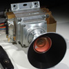 Phoenix Spacecraft MARDI